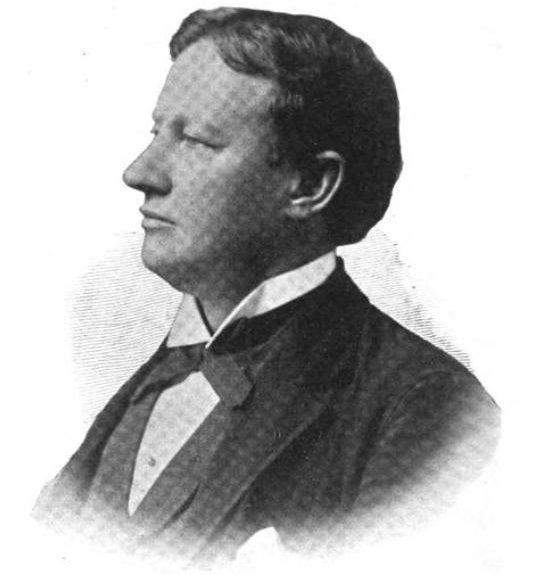 This is a photograph of Thomas Jefferson Clunie from the book, History of the Bench and Bar of California. The book was edited by Oscar T. Shuck and published, in 1901, by the Commercial Printing House in Los Angeles, CA.